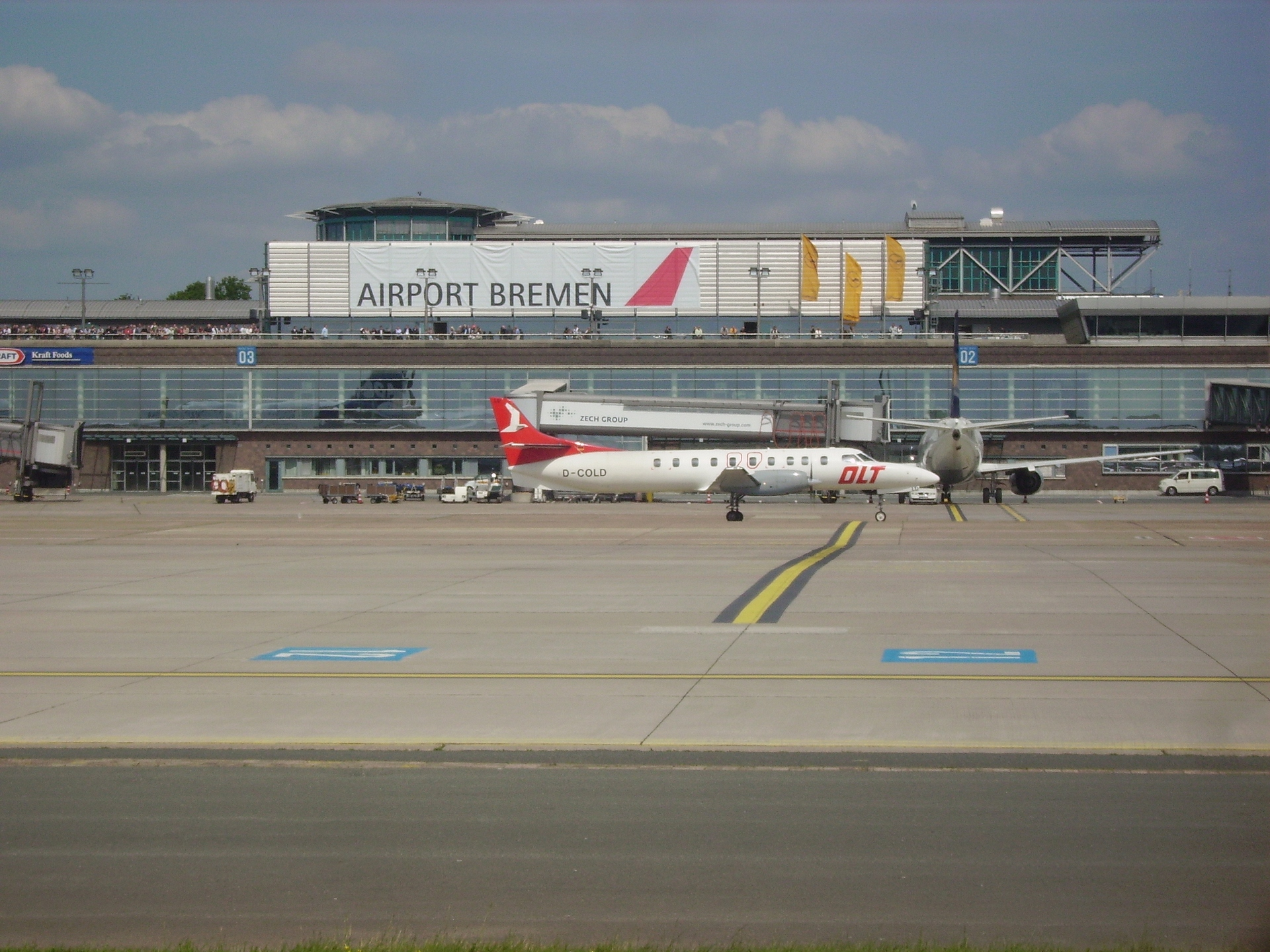 A Metroliner of the German airline OLT is taxing at the airport of Bremen